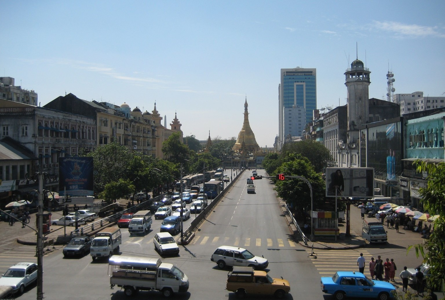 Central Business District, Yangon